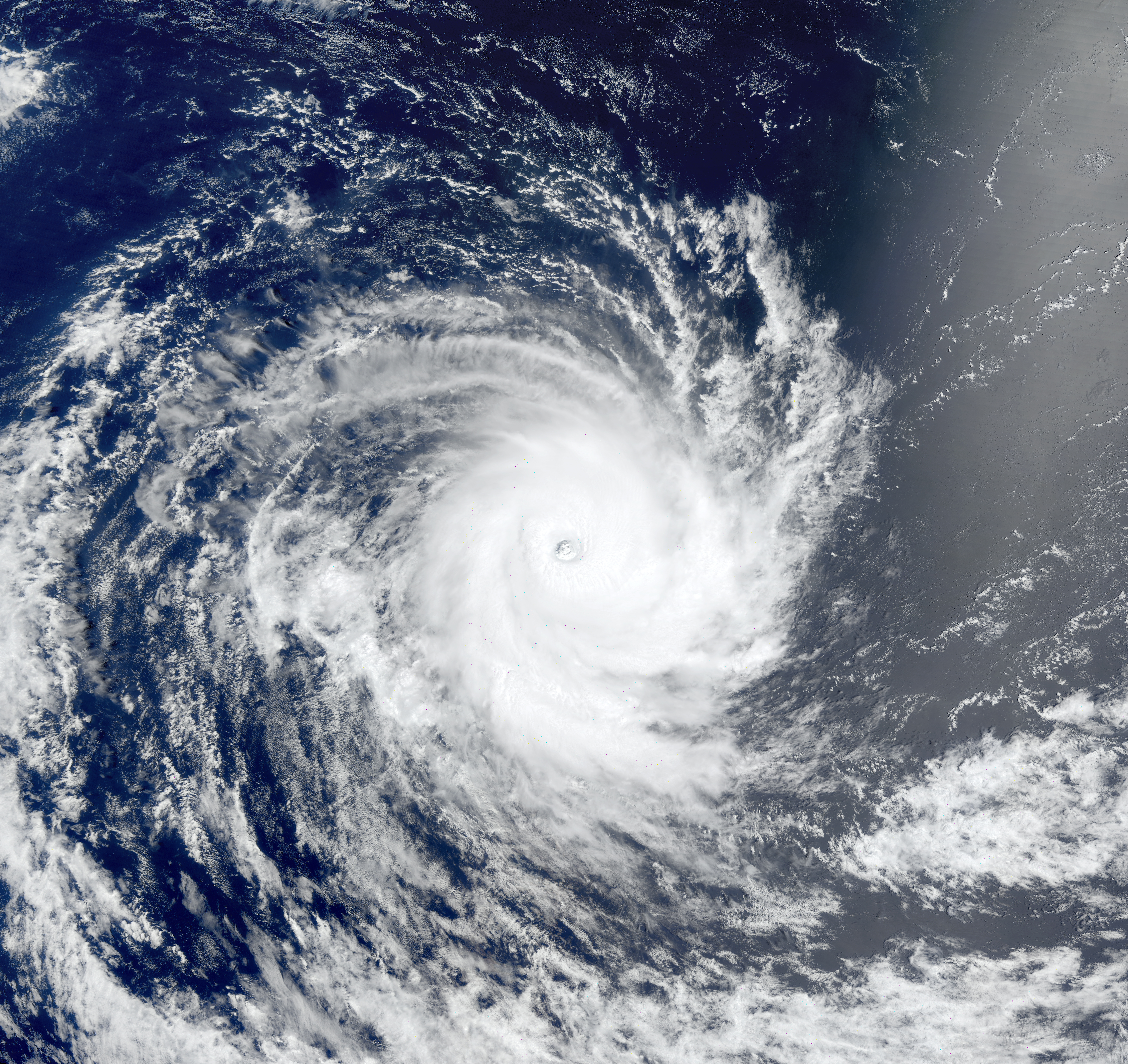 Intense Tropical Cyclone Bertie-Alvin on November 23, 2005